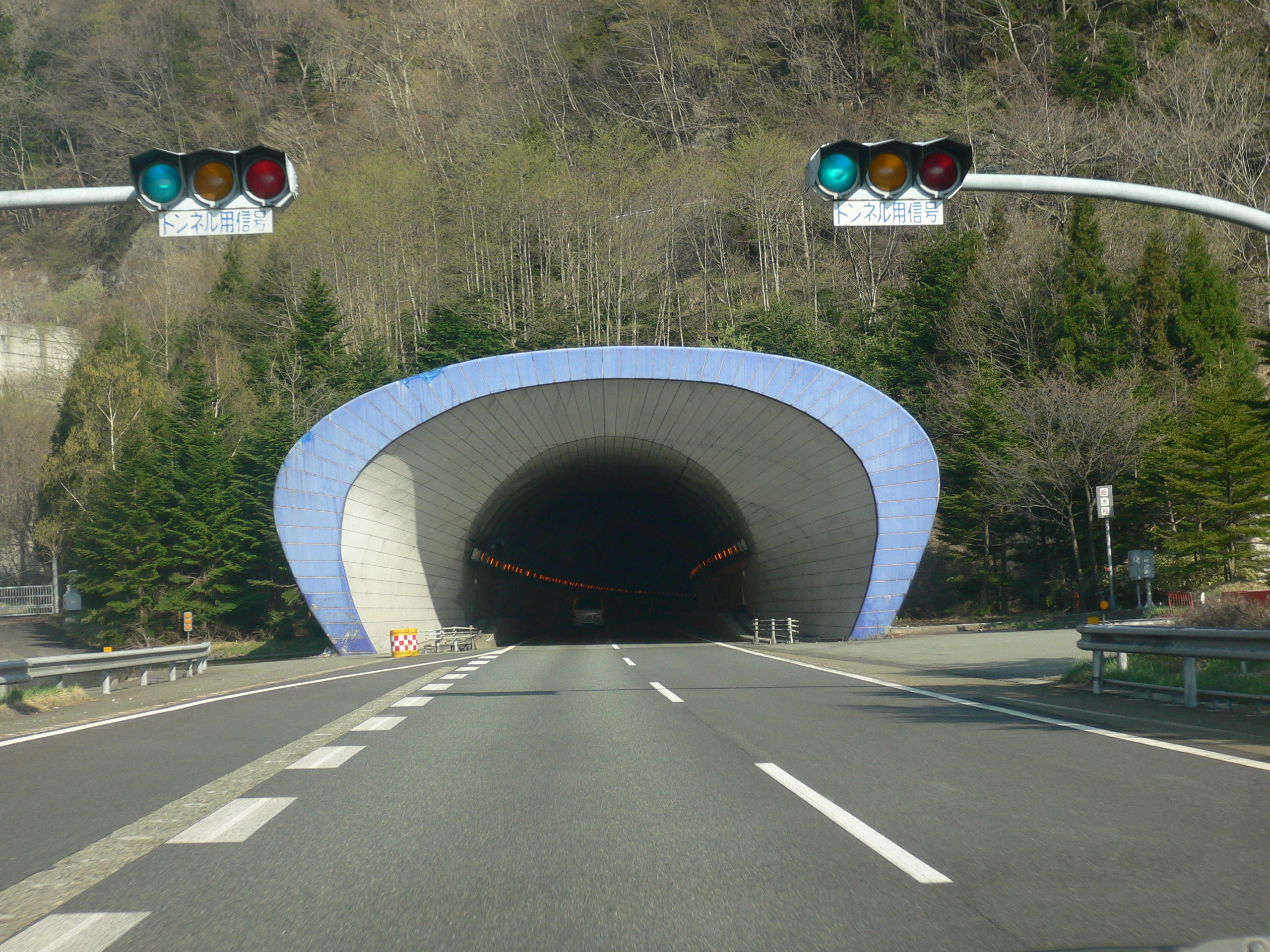 Kan-etsu Tunnel for Minakami & Tokyo(関越トンネル), Yuzawa T, Niigata P.